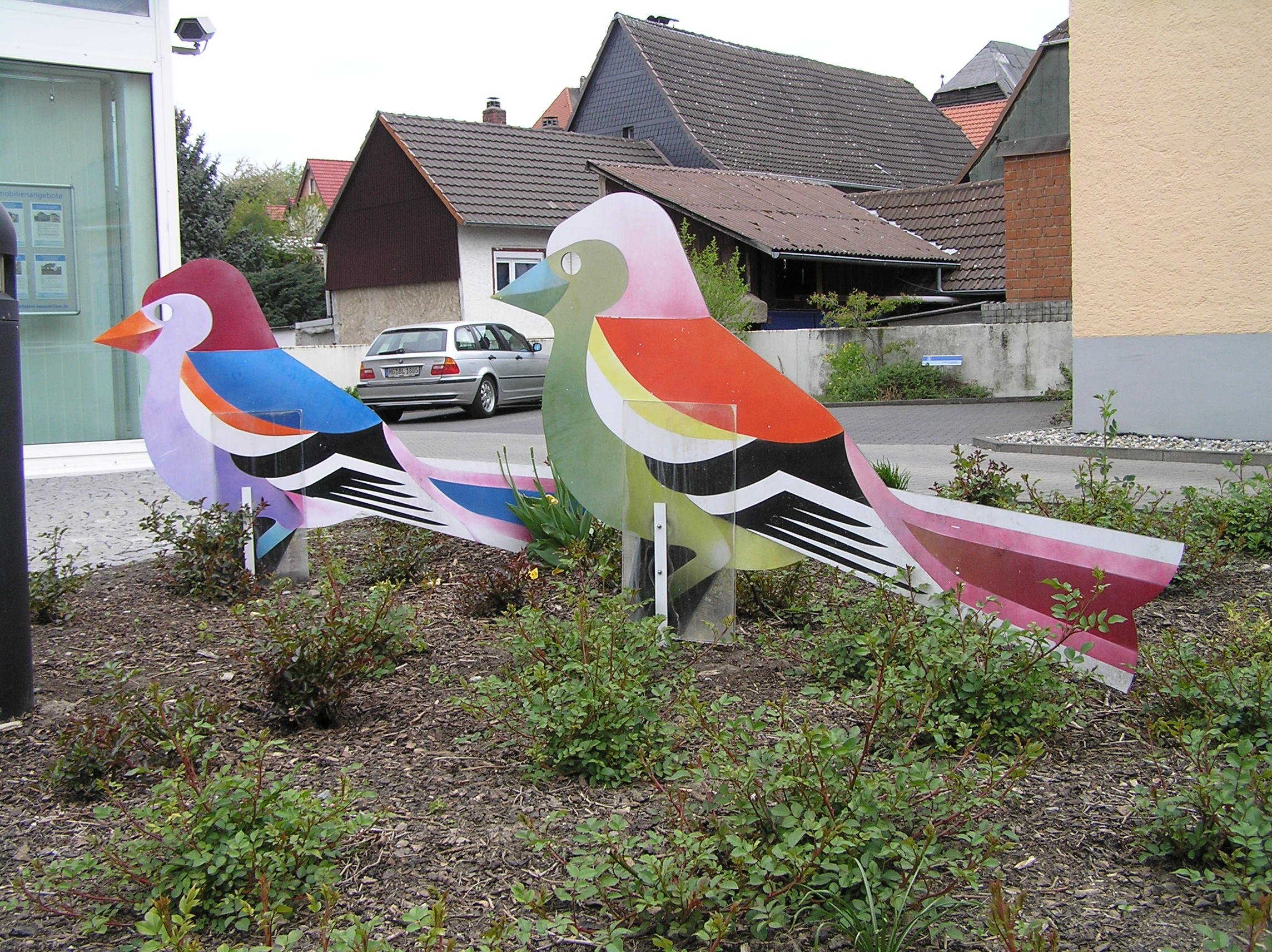 Chaffinch in Usingen, Germany. Usingen country is well known as "Buchfinkenland" (Chaffinch country).